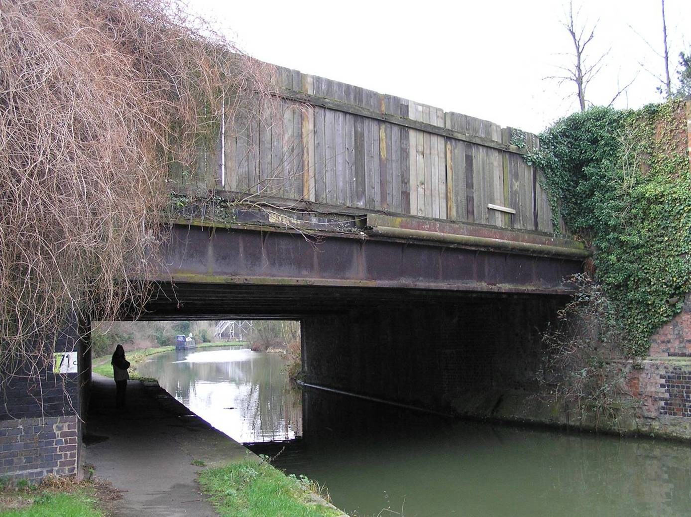 Cast iron girder bridge carrying the West Coast Main Line over the Grand Union Canal in Wolverton, Buckinghamshire. Designed and built for the London and Birmingham Railway in 183435 when Robert Stephenson was chief engineer.